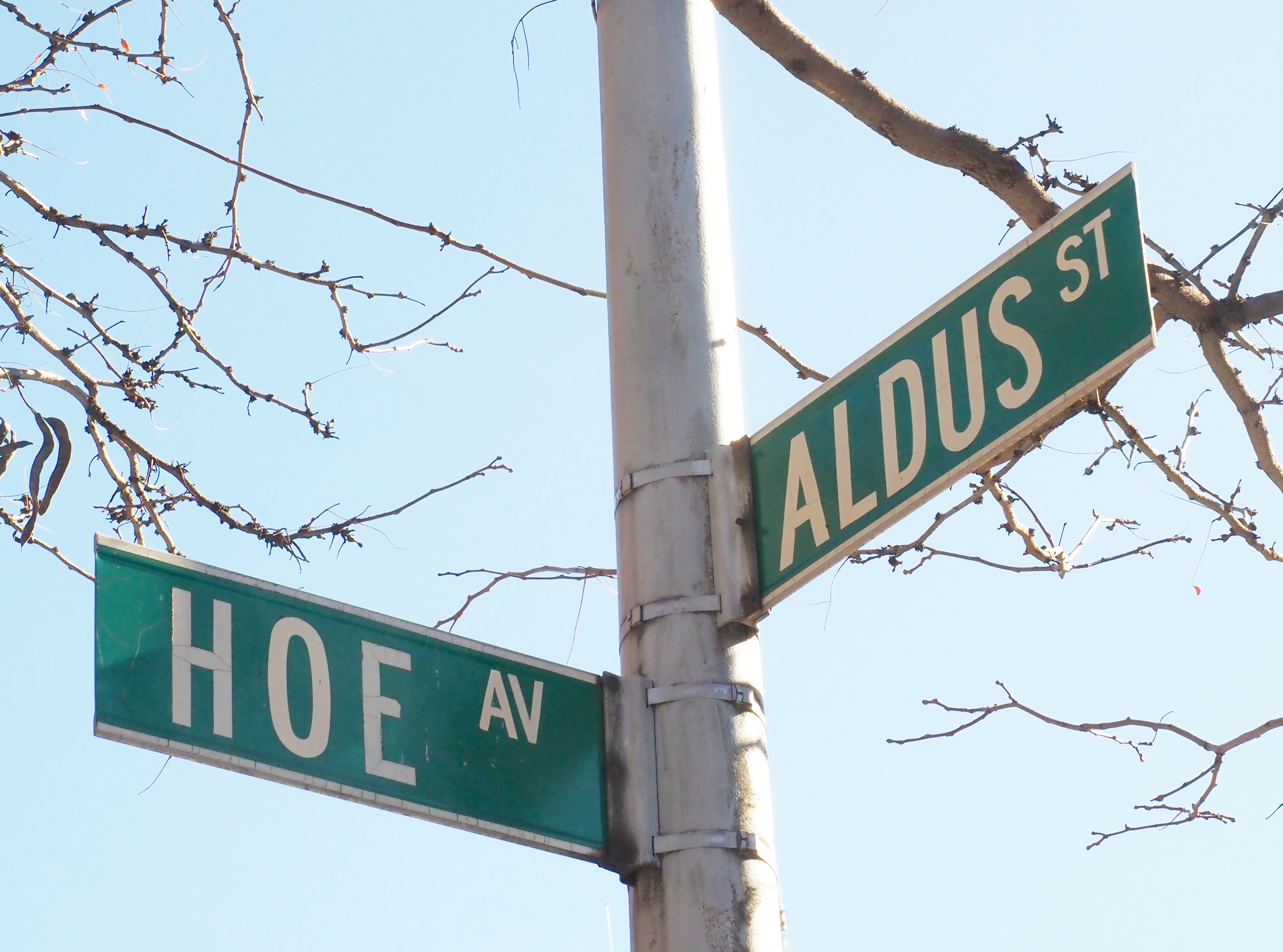 Street signs at the corner of Hoe Avenue and Aldus Street, Bronx, NY.